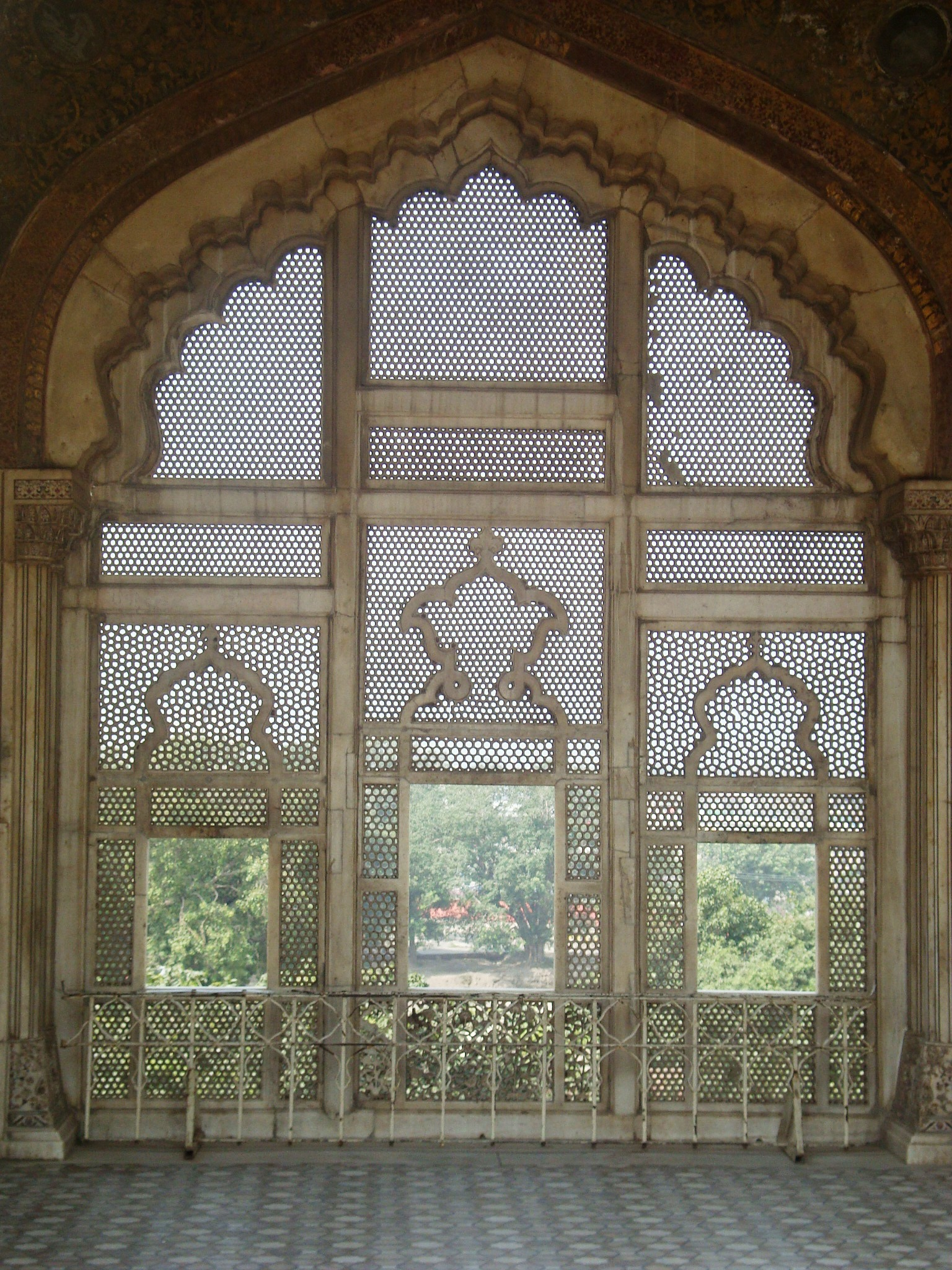 Lahore Fort complex (including Moti Masjid, Naulakha Pavilion, Sheesh Mahal and others) This is a photo of a monument in Pakistan identified as the PB-67